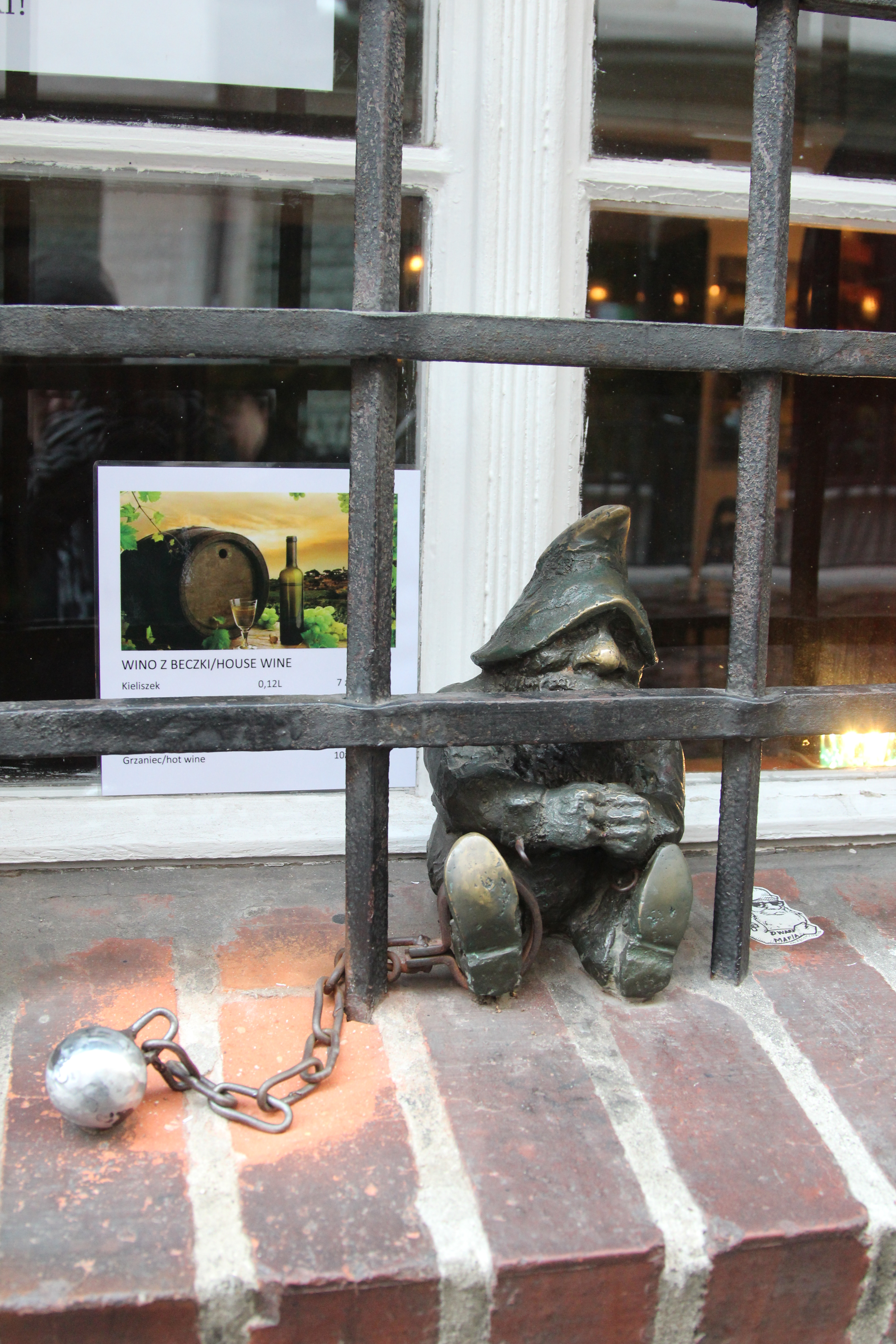 Prisoner (Więzień) dwarf from old Municipal Jail on Więzienna 9